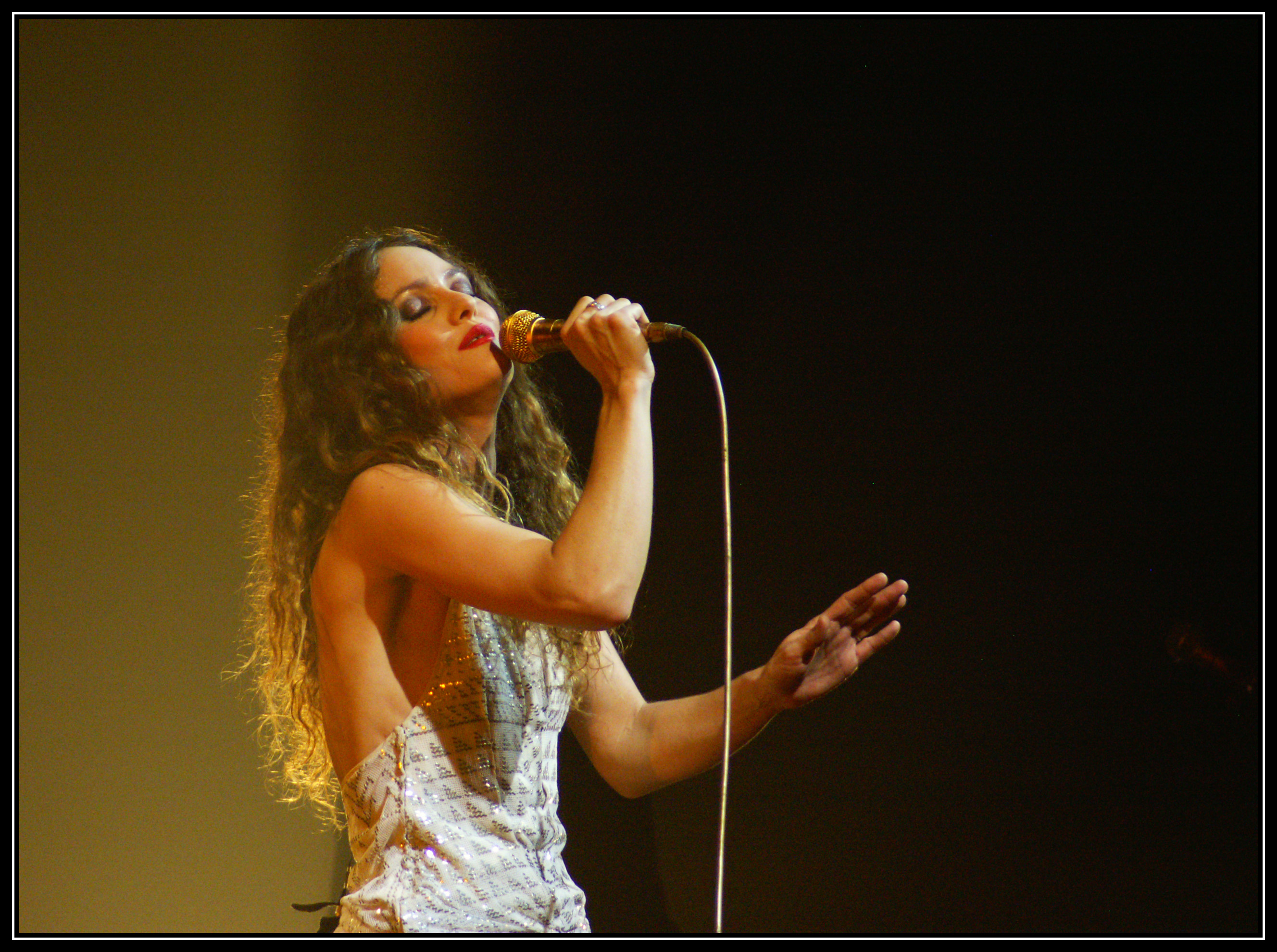 Vanessa Paradis live at Châteauroux (France).Vanessa Paradis @ Tarmac (Châteauroux)